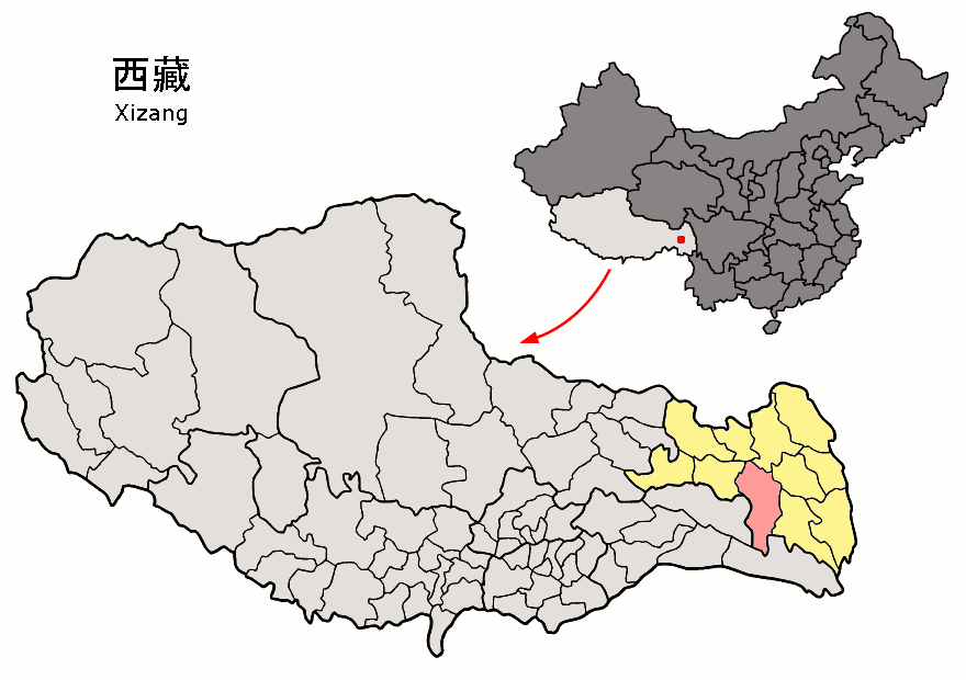 Location of Baxoi County (pink) and Qamdo Prefecture (yellow) within Tibet (Xizang) autonomous region of China